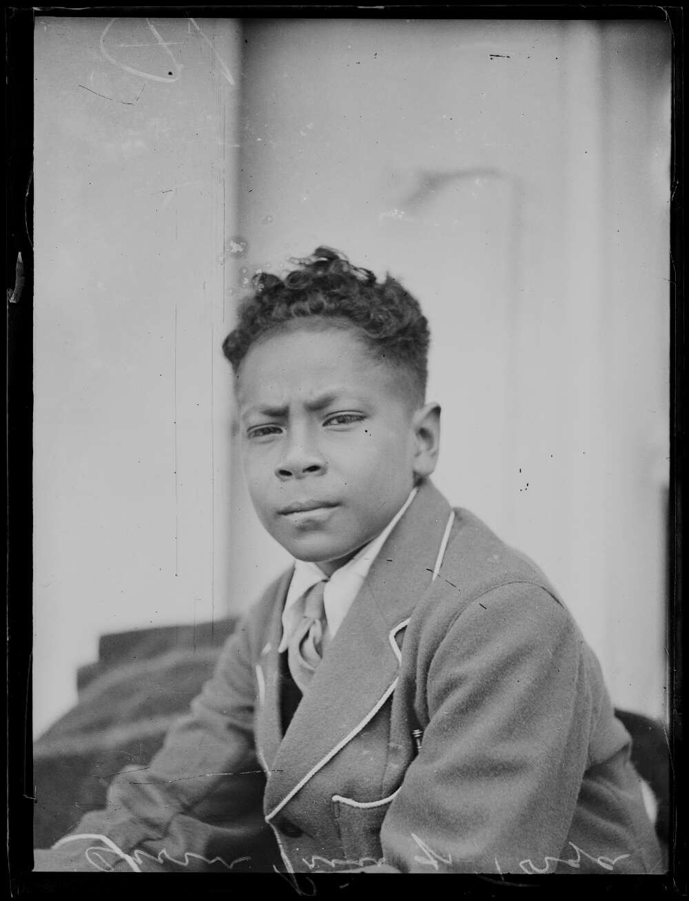 Crown Prince of Tonga George Taufa'ahau arriving by Aorangi with the Methodist Tongan choir, New South Wales, ca. 1928.